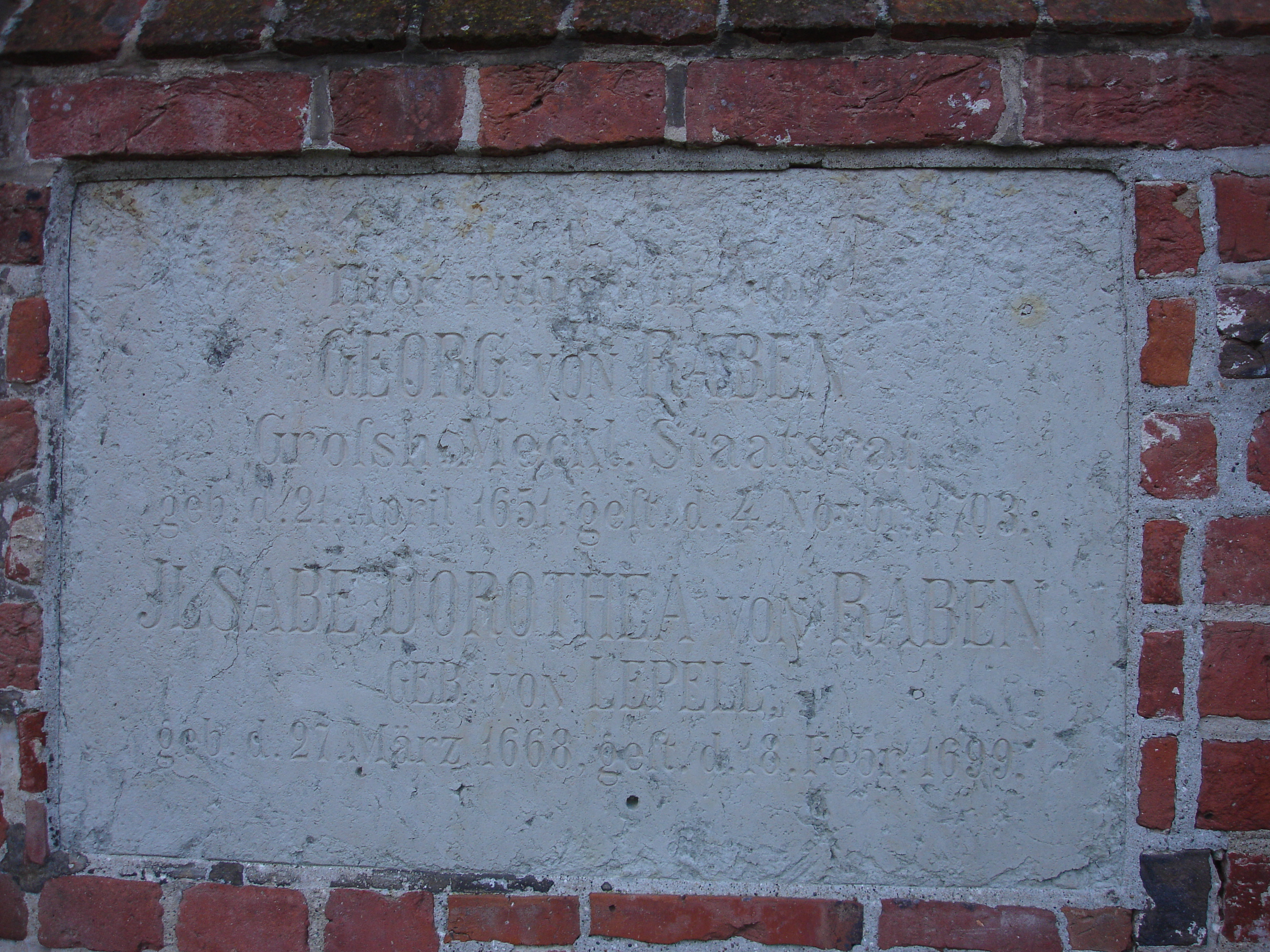 Church in Groß Trebbow, district Nordwestmecklenburg, Mecklenburg-Vorpommern, Germany